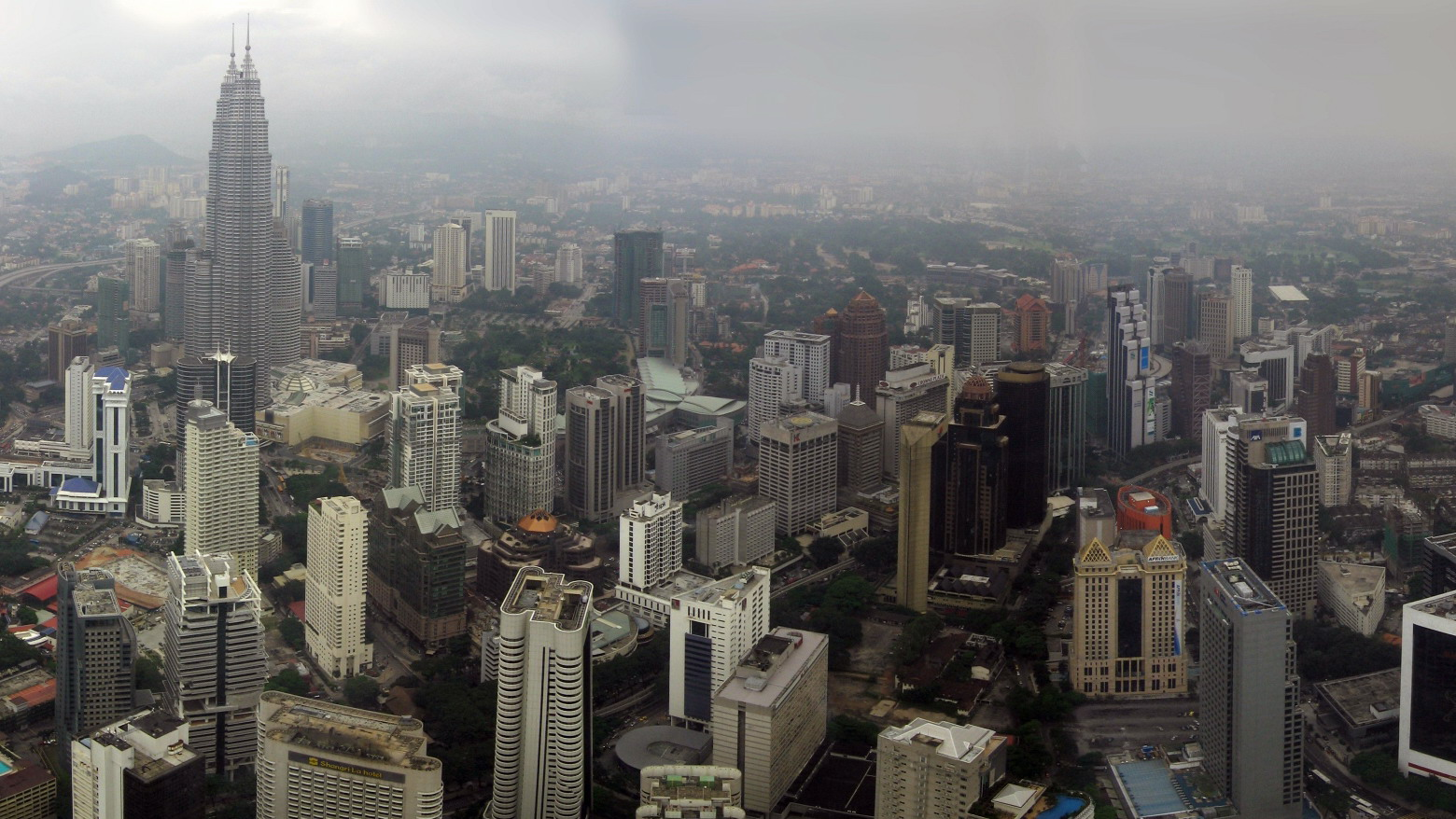 Panorama image of view from Menara Kuala Lumpur